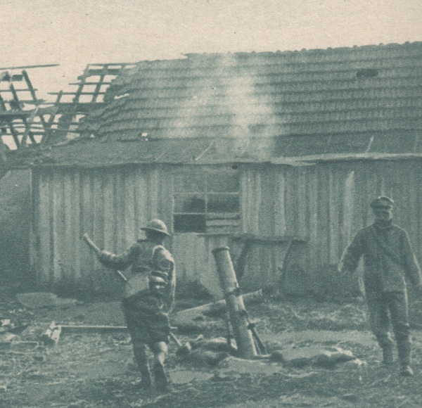 Clipped section of photograph of Canadian troops using the Newton 6 inch Mortar at Valenciennes, France, 1918.